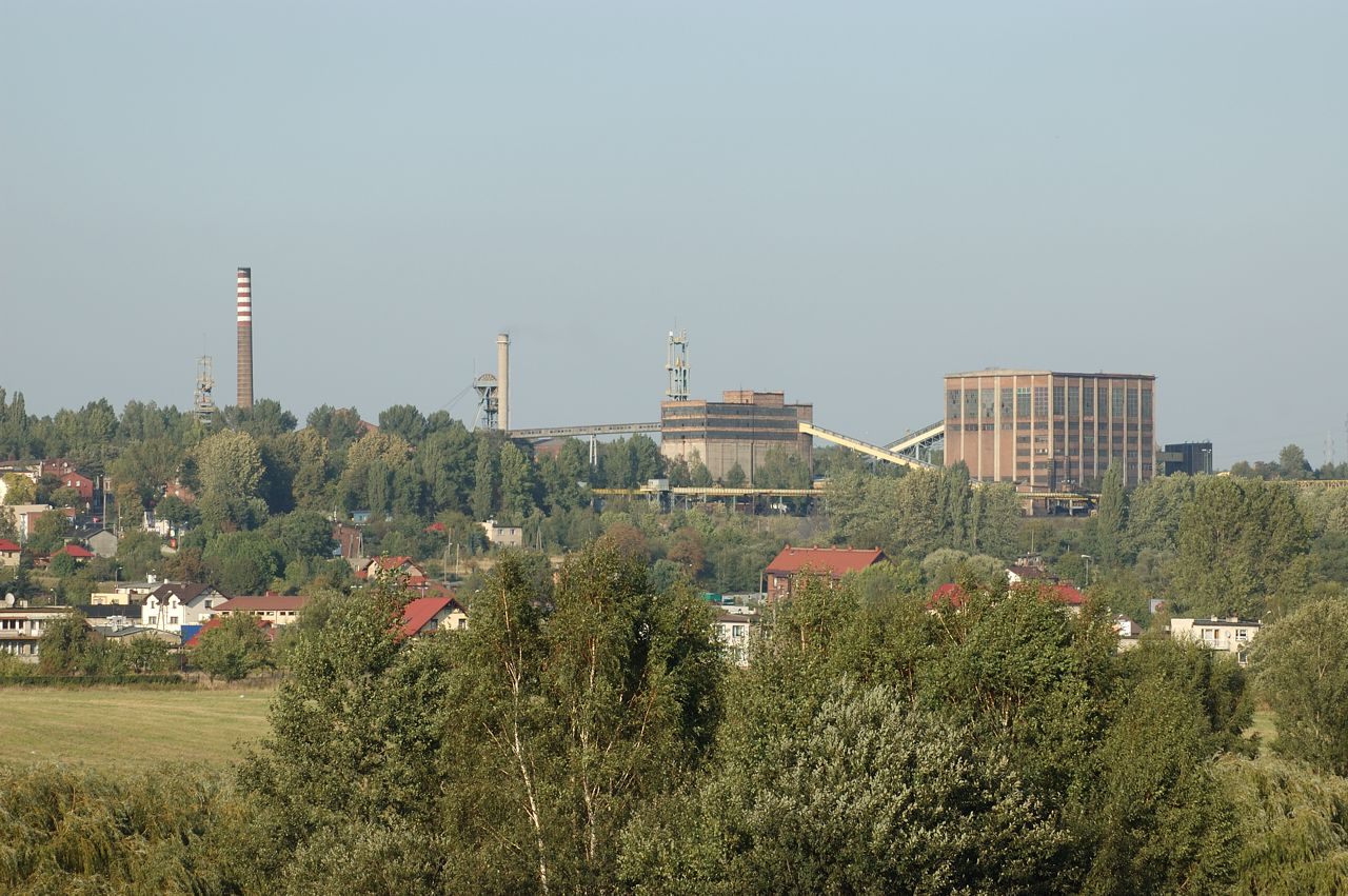 Mine Nowy Wirek, Ruda Śląska, Poland